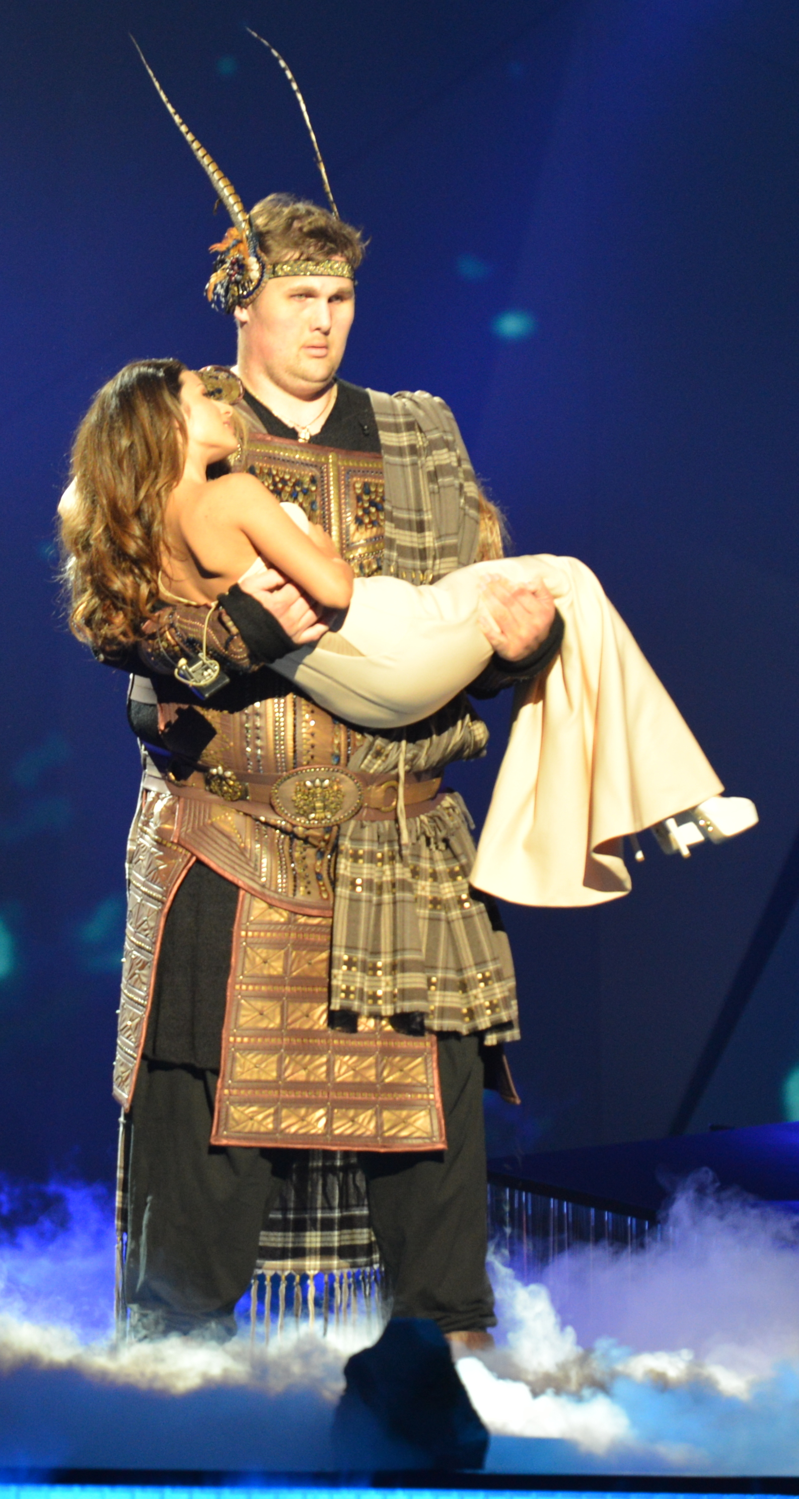 Zlata Ognevich representing Ukraine with the song "Gravity" during the first dress rehearsal of the first semi final of the Eurovision Song Contest 2013 in Malmö. (Help translate this text)